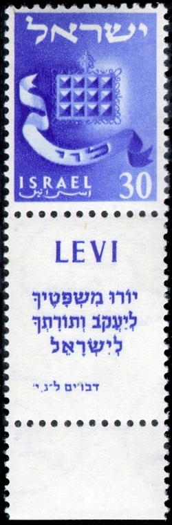 Tribes stamp - 30 mil - Levi. Second definitive series. Inscription on tab: "They shall teach Jacob thy judgments, and Israel thy law..." Deuteronomy XXXIII, 10.